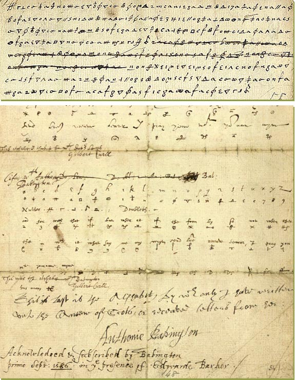 Composite image of forged postscript to a letter by Mary Queen of Scots to Anthony Babington (SP 12/193/54) and alongside Babington's record of the cipher used. (SP 53/18/55)